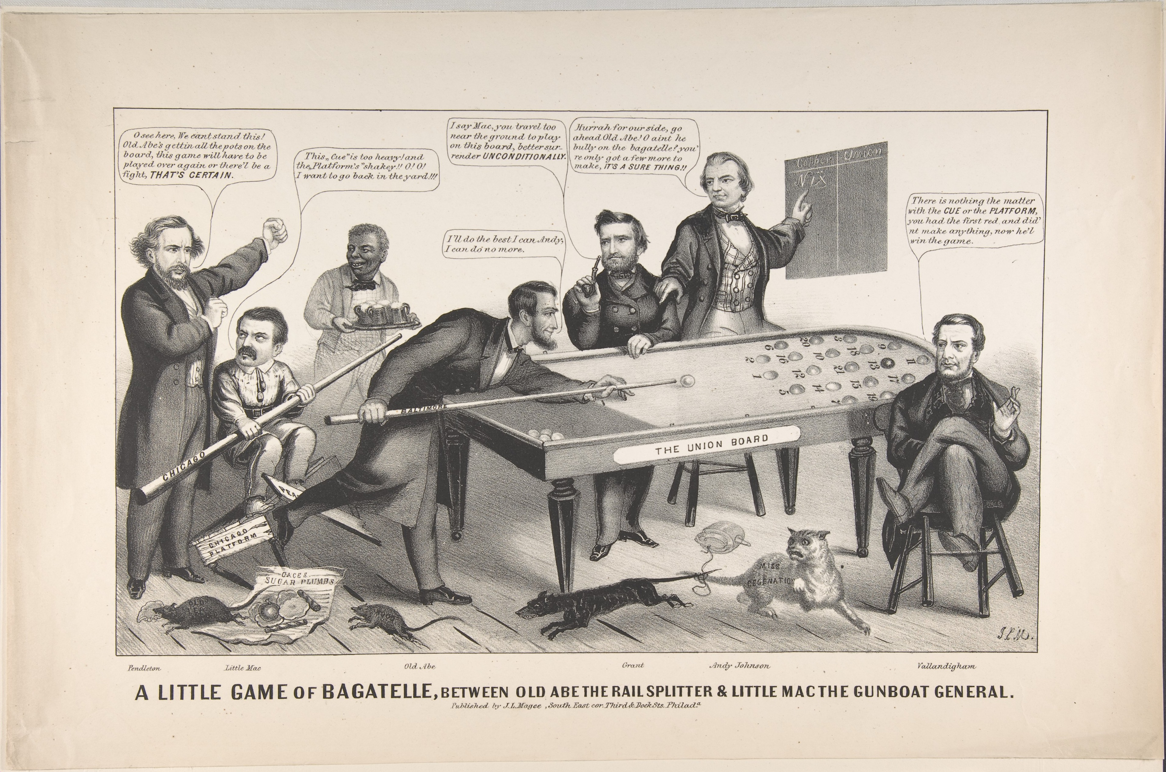 Print; Prints